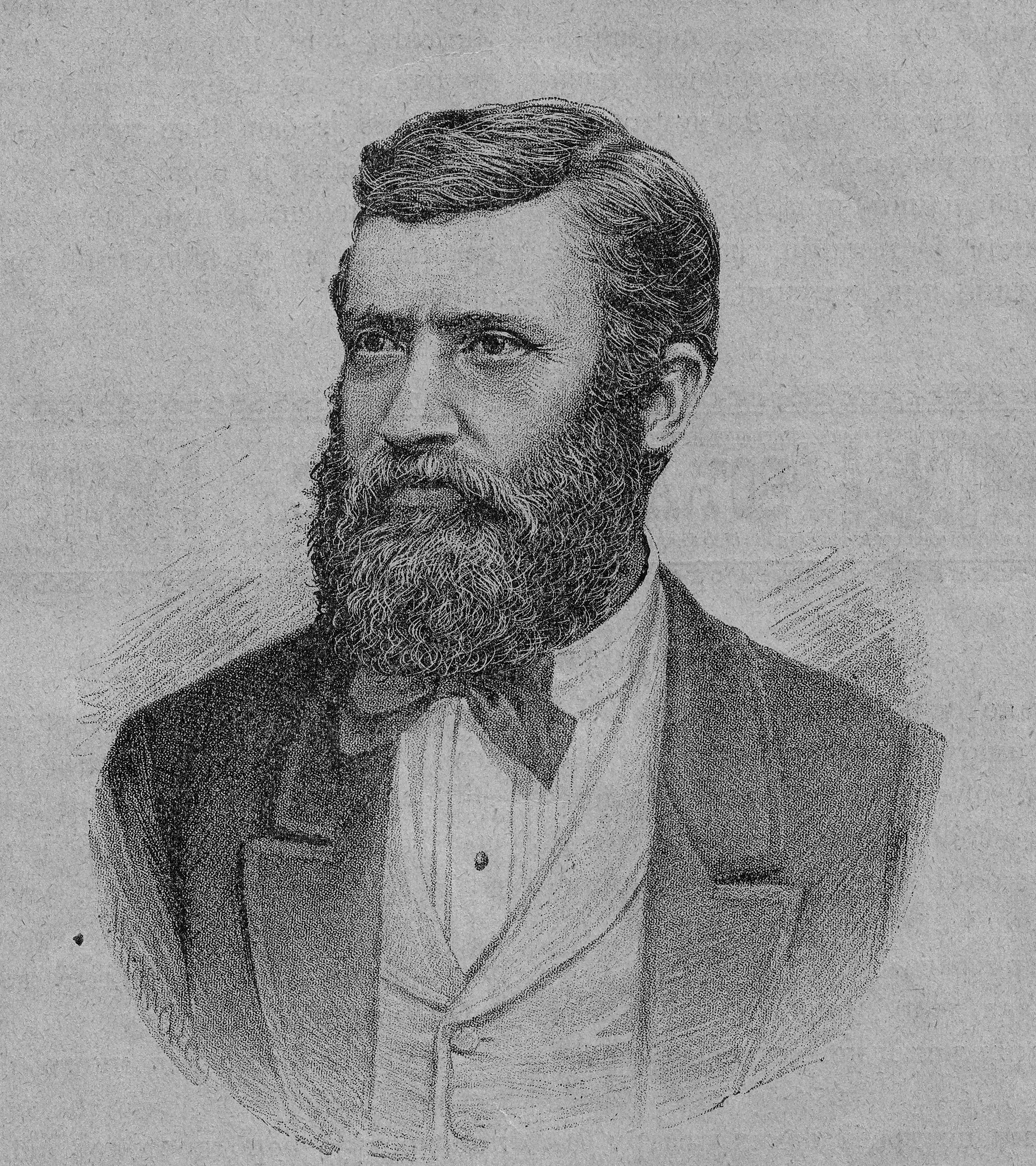 Stevan Pavlović (1829-1908), President of Matica Srpska. Taken from the 1896 edition of the calendar Orao. Srpski (latinica): Stevan Pavlović (1829-1908), predsednik Matica srpske. Preuzeto iz izdanja kalendara Orao za 1896. godinu.